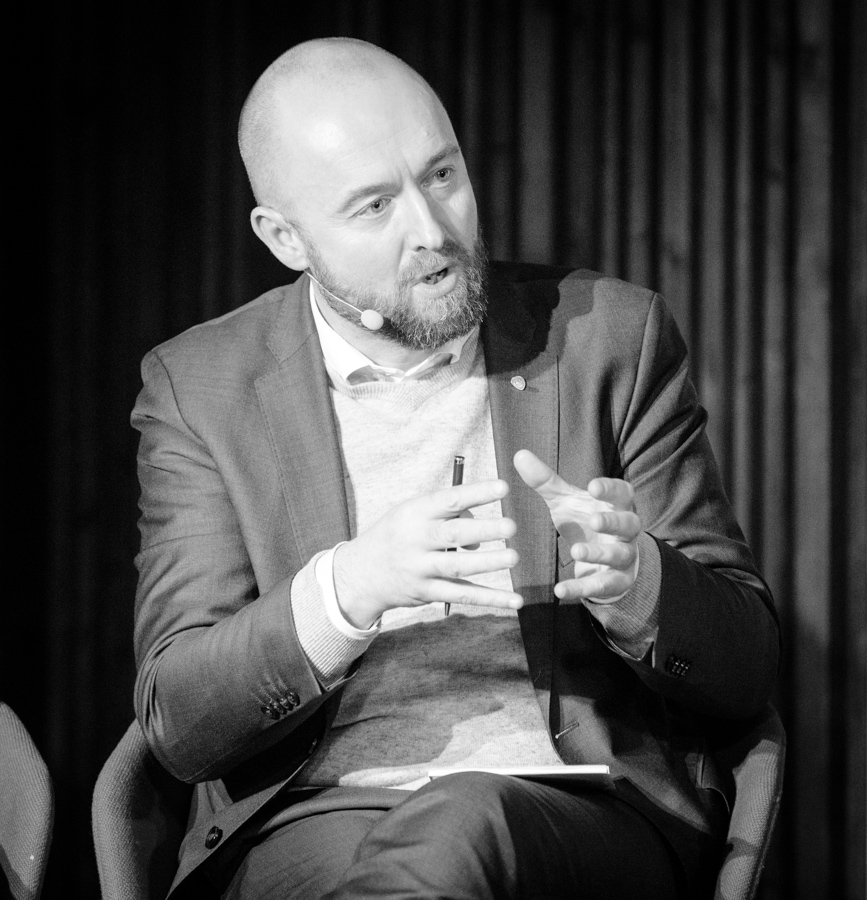 Eirik Sivertsen at the debate Russland og Ukraina – Hva betyr det for Norge? at Kulturhuset. The event took place on 14. February 2018 in Oslo. Lineup: Øystein Bogen (journalist), Lene Wetteland (researcher or scientist), Eirik Sivertsen (politician), Michael Tetzschner (politician), Hedda Langemyr (host) and Unidentified (researcher or scientist).